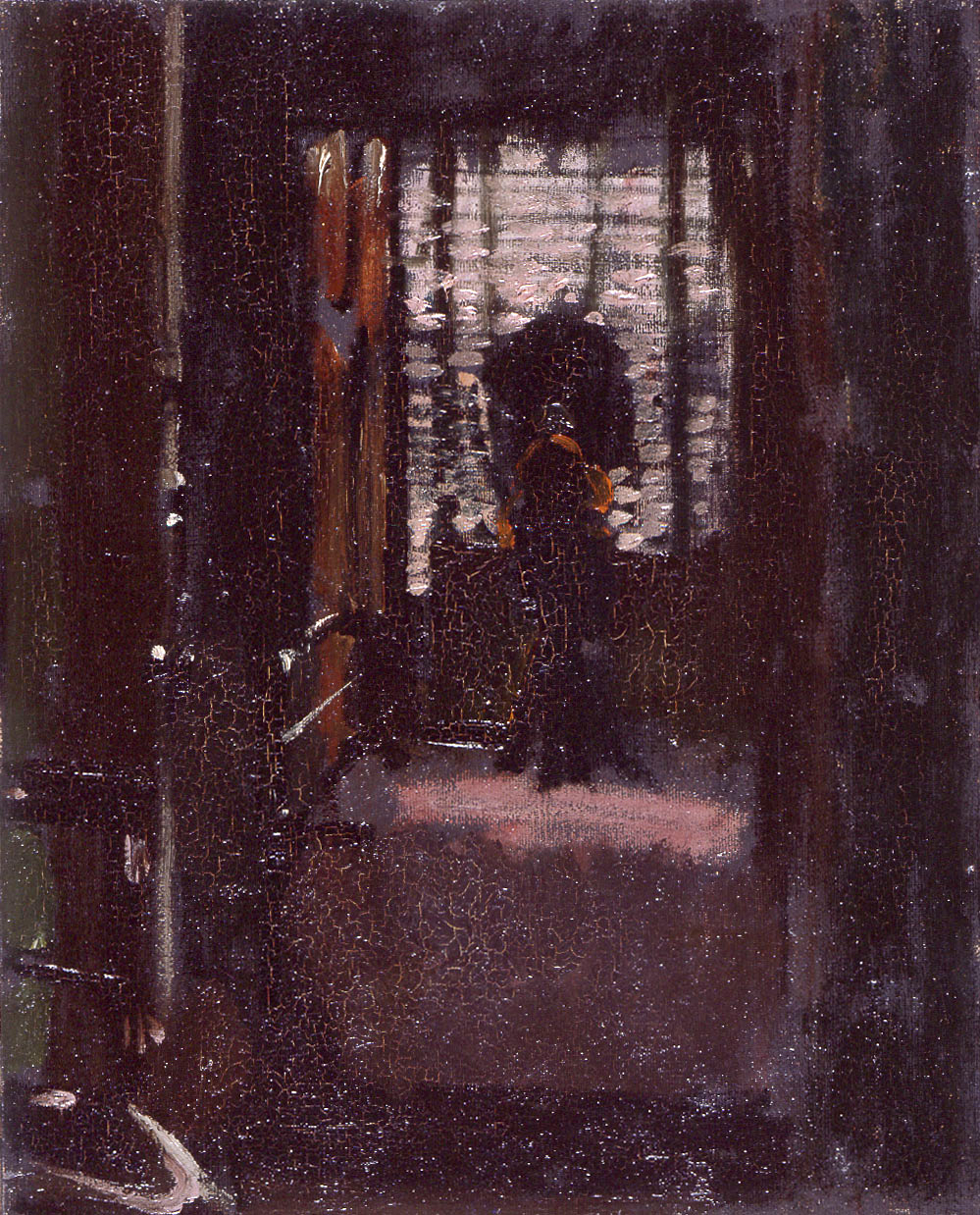 Oil on canvas, 50.8 x 40.7 cm. Manchester City Gallery.